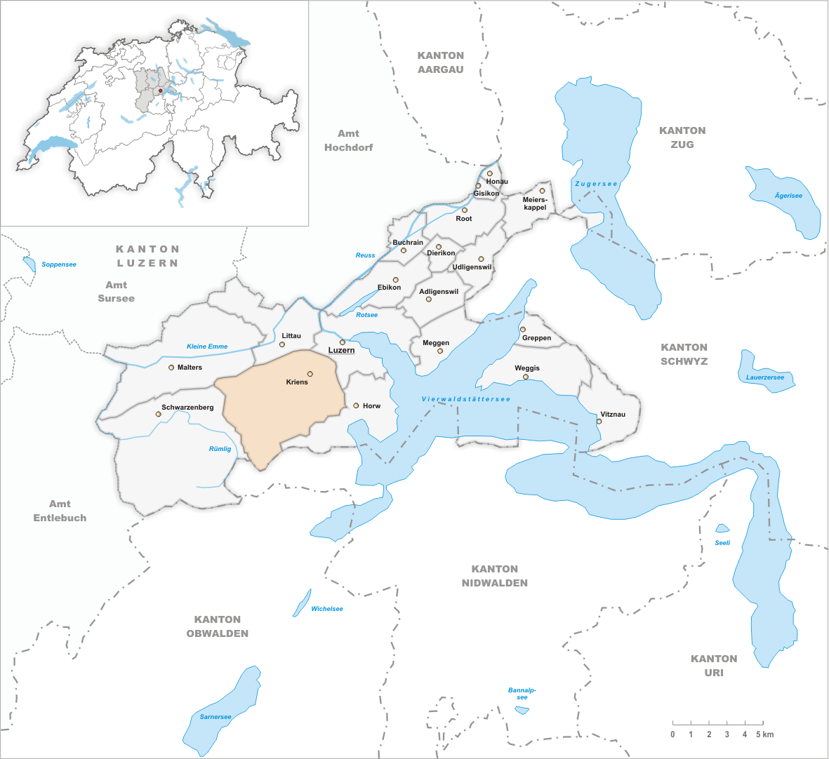 Municipality Kriens